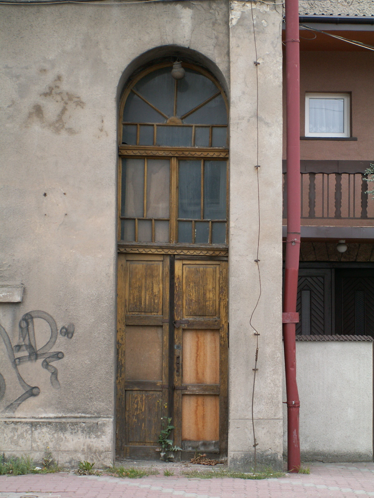 Merchants Synagogue in Trzebinia